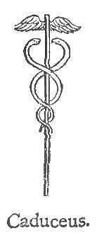 Illustration from 1908 Chambers's Twentieth Century Dictionary. Caduceus, n. (myth.) the rod carried by Mercury, the messenger of the gods—a wand surmounted with two wings and entwined by two serpents.